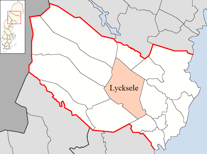 Lycksele Municipality in Västerbotten County Designed by me. Mere outlines are a PD source from